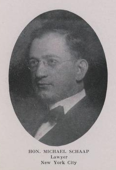 Michael Schaap, an American businessman and politician from New York, from Empire state notables, 1914